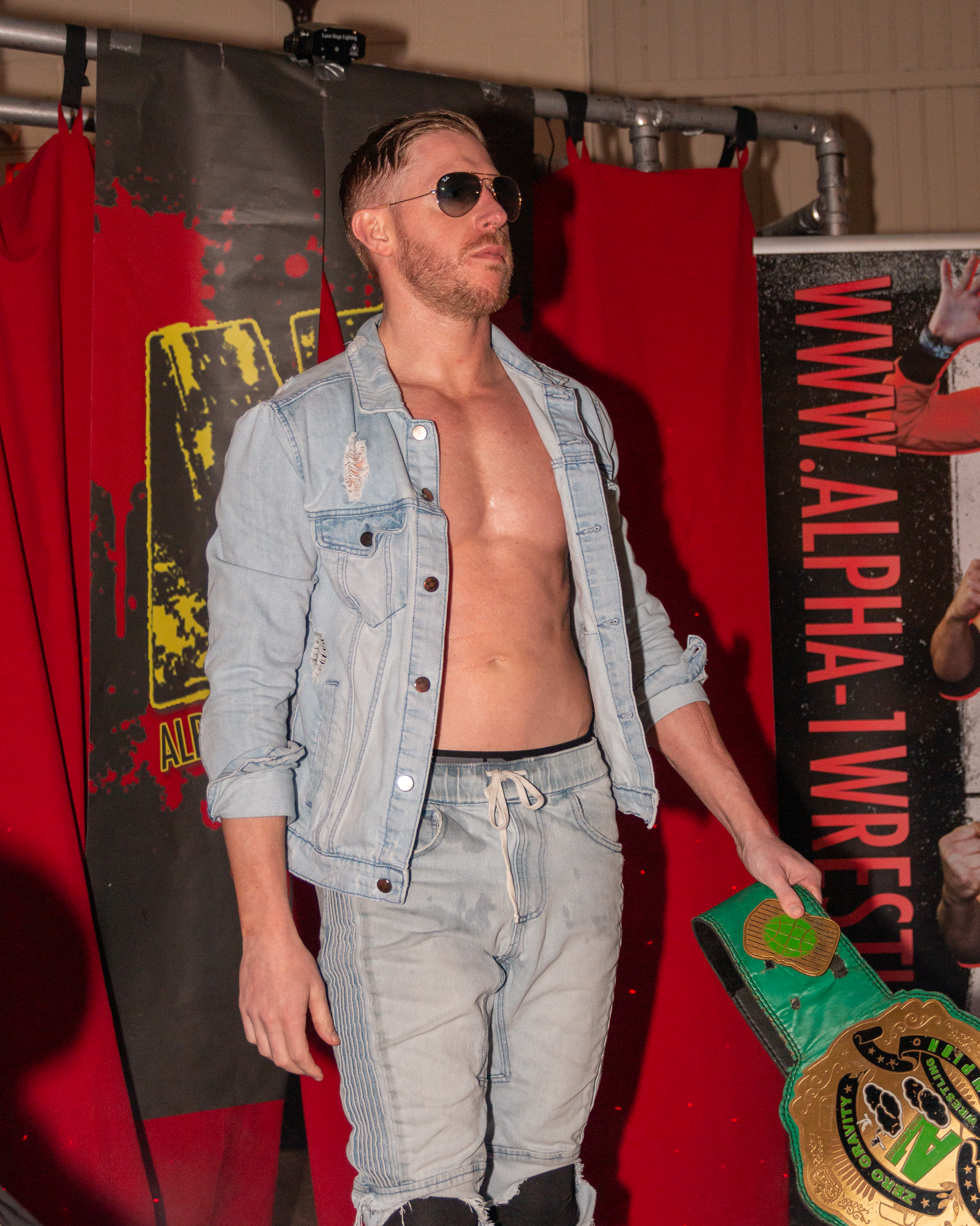 Orange Cassidy making his entrance at an Alpha-1 show in Hamilton Ontario, with the Alpha-1 Zero Gravity belt.